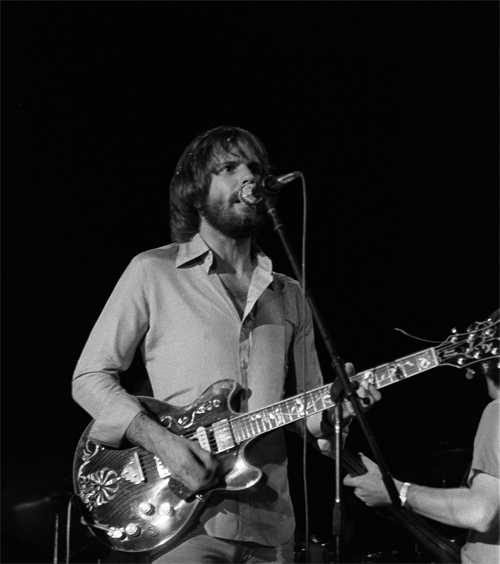 Bob Weir performing with the Grateful Dead 12/31/76